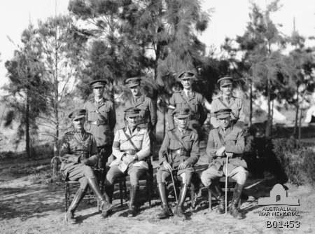 A group of prominent staff officers in the Palestine Campaign. The names are: Left to right, sitting, Brigadier General (Brig Gen) C A C Godwin BGGS, Desert Mounted Corps. Major General (Maj Gen) Sir E W C Chaytor, General Officer Commanding (GOC) Anzac Mounted Division, Lieutenant General Sir H G Chauvel, GOC, Desert Mounted Corps, Maj Gen H W Hodgson, GOC, Australian Mounted Division. Left to right, standing: Lieutenant Colonel (Lt Col) W J Foster, CMG DSO (AIF) GSOI, Yeomanry Mounted Division, Lt Col J C Brown CMG DSO, GSOI, Anzac Mounted Division, Brig Gen Howard-Vyse S.G.S.O, Lt Col Osborne, GSOI, Australian Mounted Division.